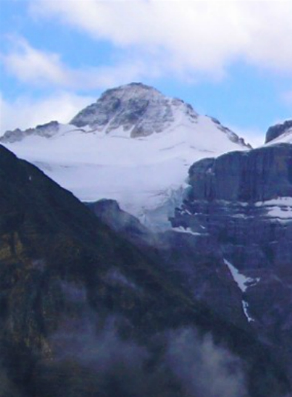 Mount Little and Fay Glacier seen from the Moraine Lake area.